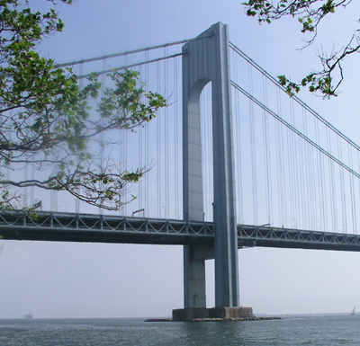 Verrazano Narrows Bridge, Brooklyn, 2003